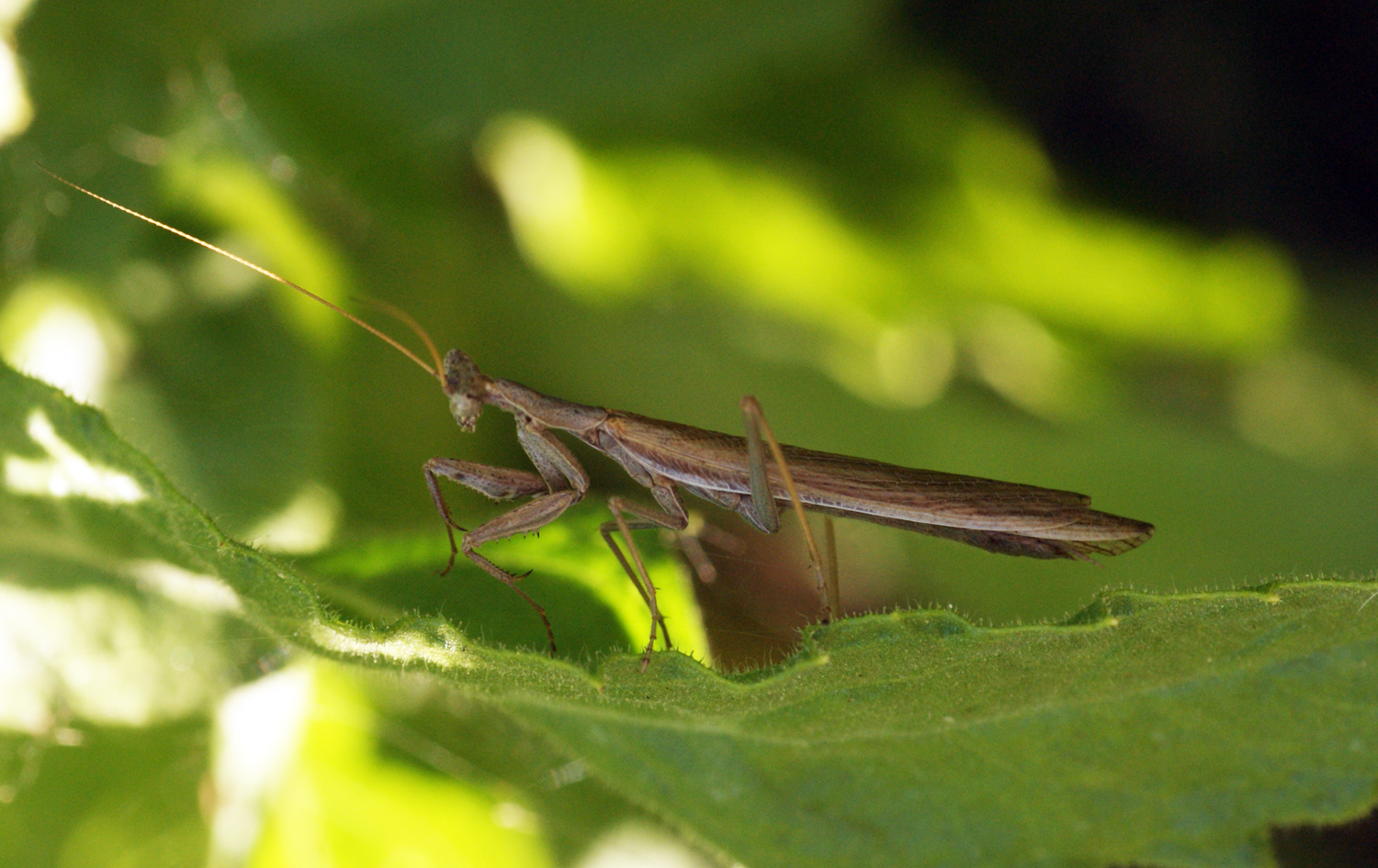 Back from Croatia with the moth that has no name... Hi everyone. I have recently got back from our honeymoon to Croatia. We both had a lovely time, the weather was a bit up and down unfortunately but we had some nice and sunny days with highs around 30 degrees. Me being me decided to do a bit of exploring around the local area. I had numerous walks up the road towards scrubby land and mixed woodland where I observed plenty of Butterflies, Crickts, Grasshoppers, Mantids and of course Moths! I also decided to do a couple of walks to the favoured areas with a fishing net (which I bought out there as I forgot to pack my net!) a torch and a few pots. I should have taken more pots....and 8 just wasn't enough. Of the 20 or so species of moth I saw out there, the most interesting was this Strathmopoda species (Which I assume it is). Bearing in mind there is only one known Strathmopoda species in Europe (pedella) this got me rather excited to say the least. From what I have been told, there is a new species of Strathmopoda being described at present, and this species could link with that? I have also been told that it will need dissecting to rule out a possible aberrant Strathmopoda pedella. See what you think, but it doesn't seem to resemble 'pedella' going on the markings.